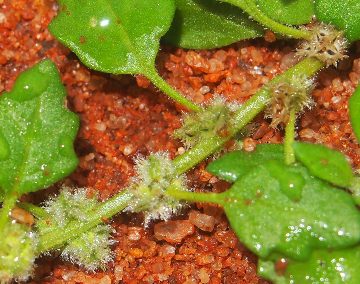 Dysphania truncata fruit